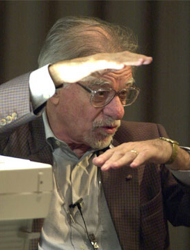 Karl Alexander Müller (born April 20, 1927)